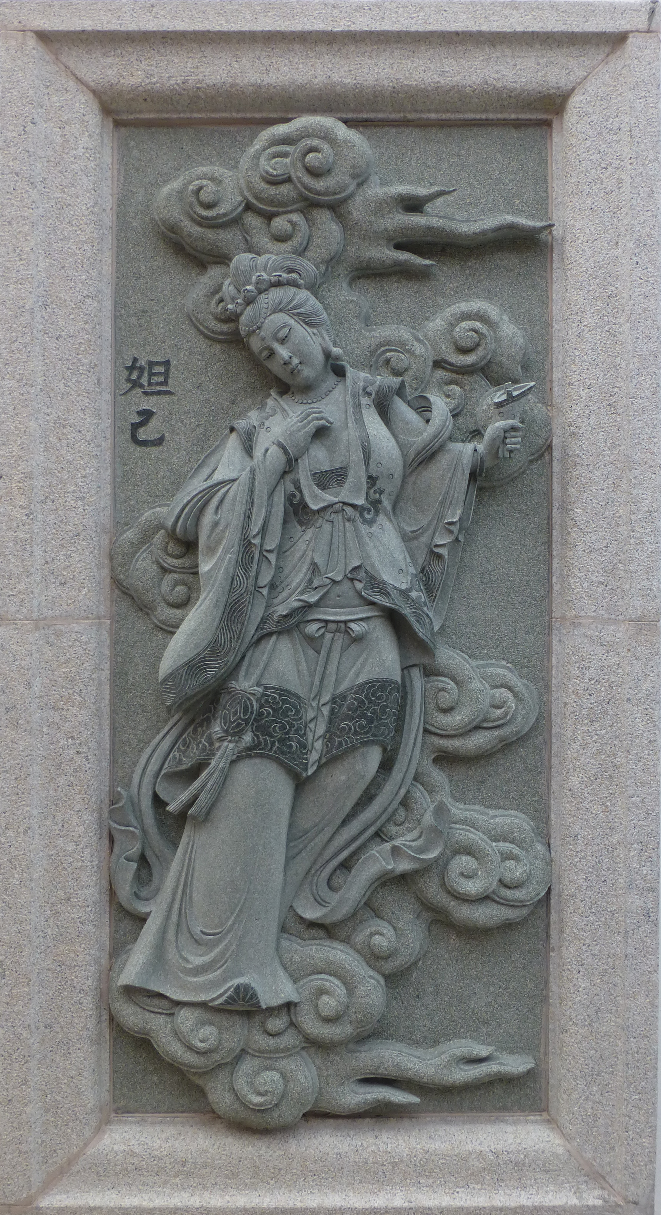 026 Daji, Investiture of the Gods at Ping Sien Si, Pasir Panjang, Perak, Malaysia Photograph from the Ping Sien Si Temple in Perak, Malaysia taken by Anandajoti.